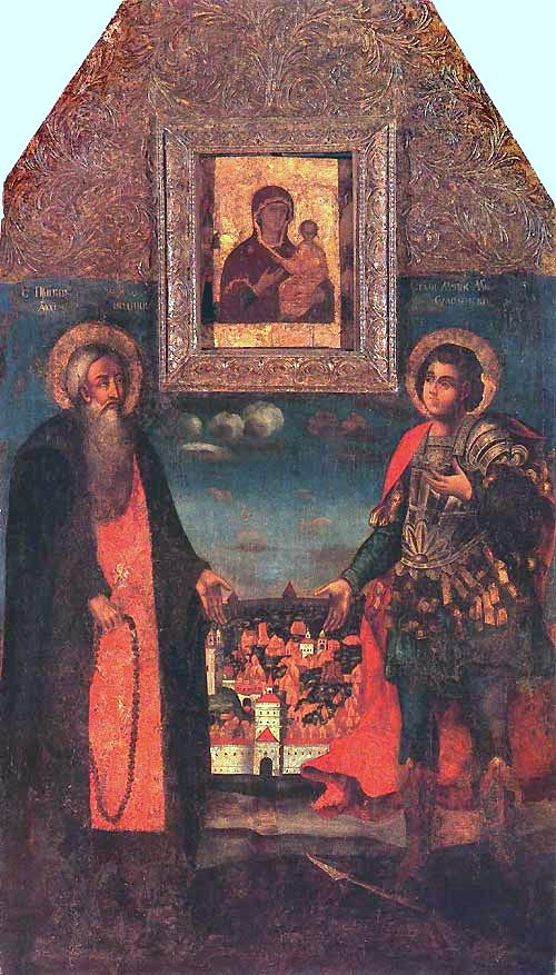 SS. Abracham and Mercury of Smolensk. 1723-1728.